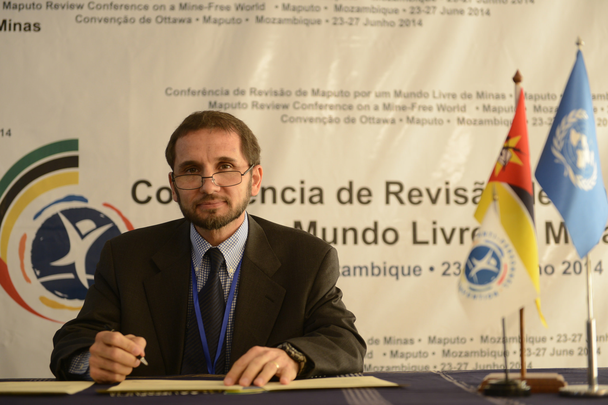 Prince Mired Bin Ra'ad Bin Zeid Al-Hussein of Jordan signing the Maputo Declaration for a Mine-Free World in 2014.